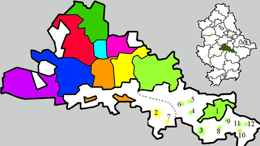 Raions of Donetsk and Donetsk City Municipality, Ukraine.